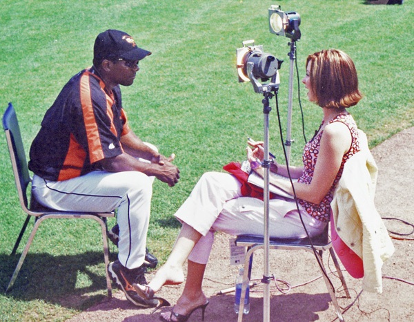 Miguel Tejada talking with the press. Photo by Googie Man 22:15, 28 March 2006 . . Googie man . . 600×466 (219 KB)